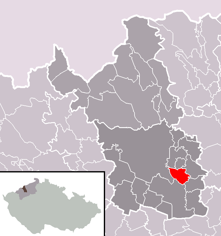 Location of Korozluky municipality within Most District and administrative area of Most as a Municipality with Extended Competence.